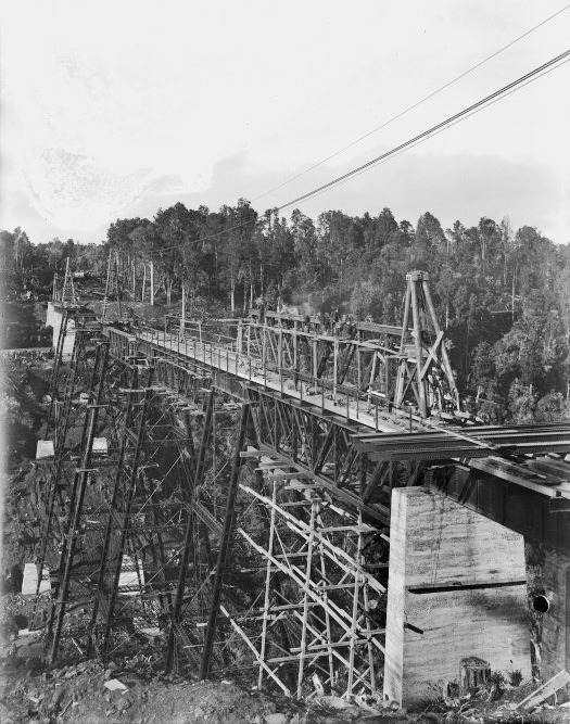 Railway viaduct at Makatote under construction in 1908. Photographer unidentified.